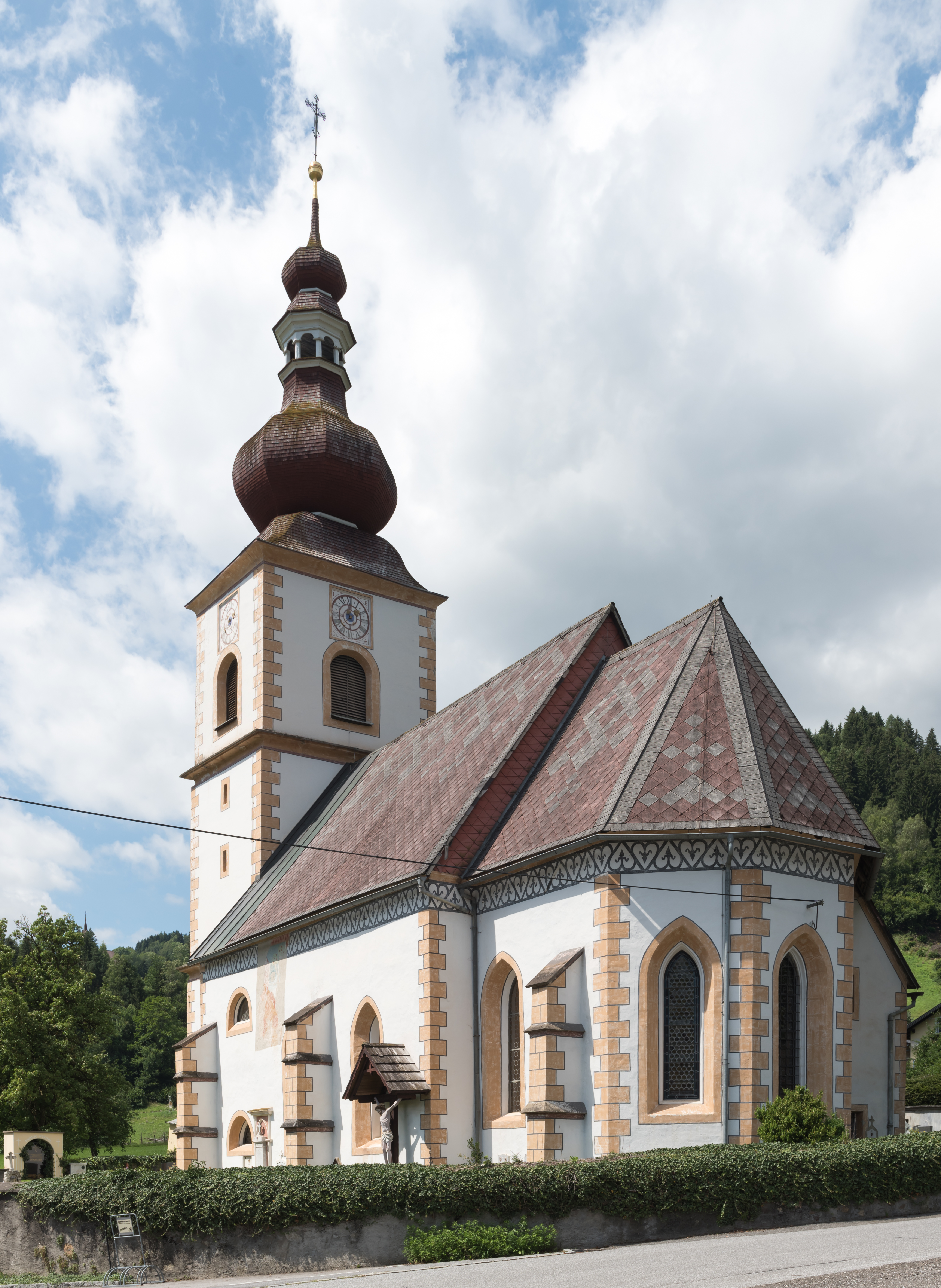 Roman Catholic parish church Saint Nicholas in Afritz, municipality Afritz, district Villach Land, Carinthia, Austria, EU